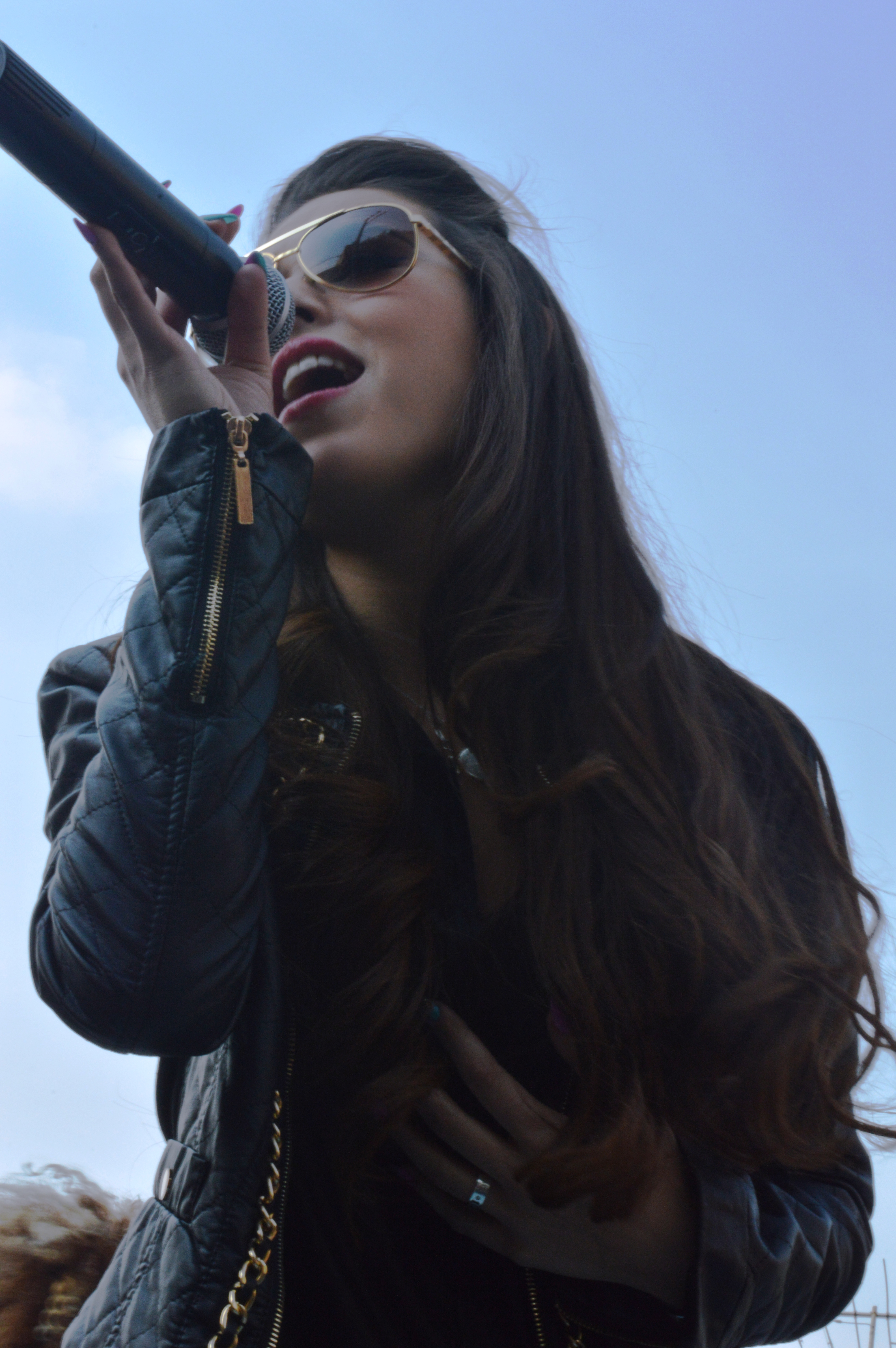 Danna Paola appearing at a community event in Colonia Obrera in Mexico City sponsored by the Fundación Expresa